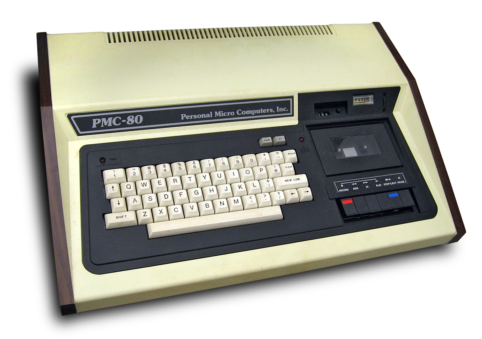 PMC-80 computer, a rebadged version of the EACA Video Genie sold in North America by Personal Micro Computers, Inc. ("PMC")